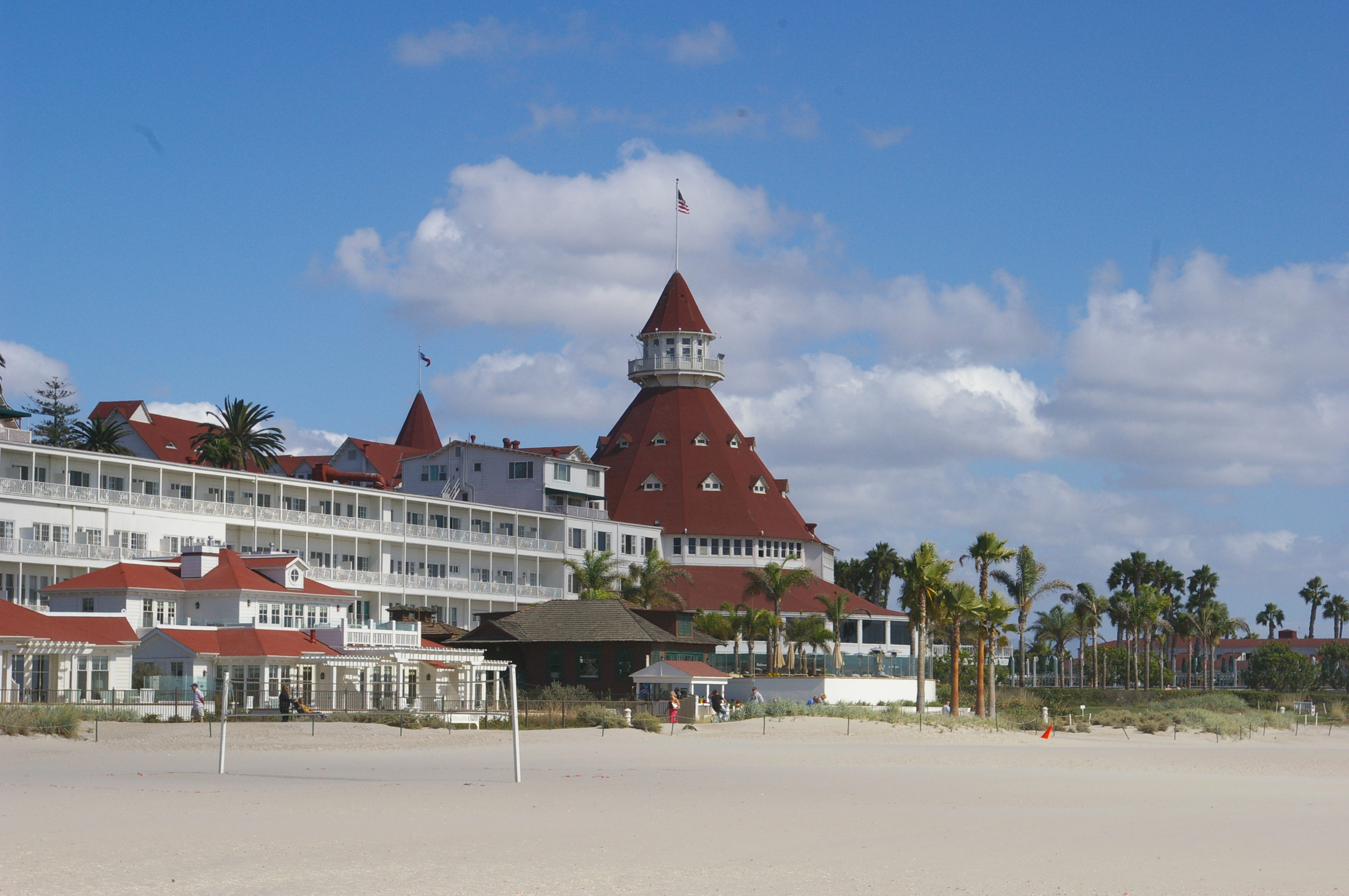 Hotel Del Coronado